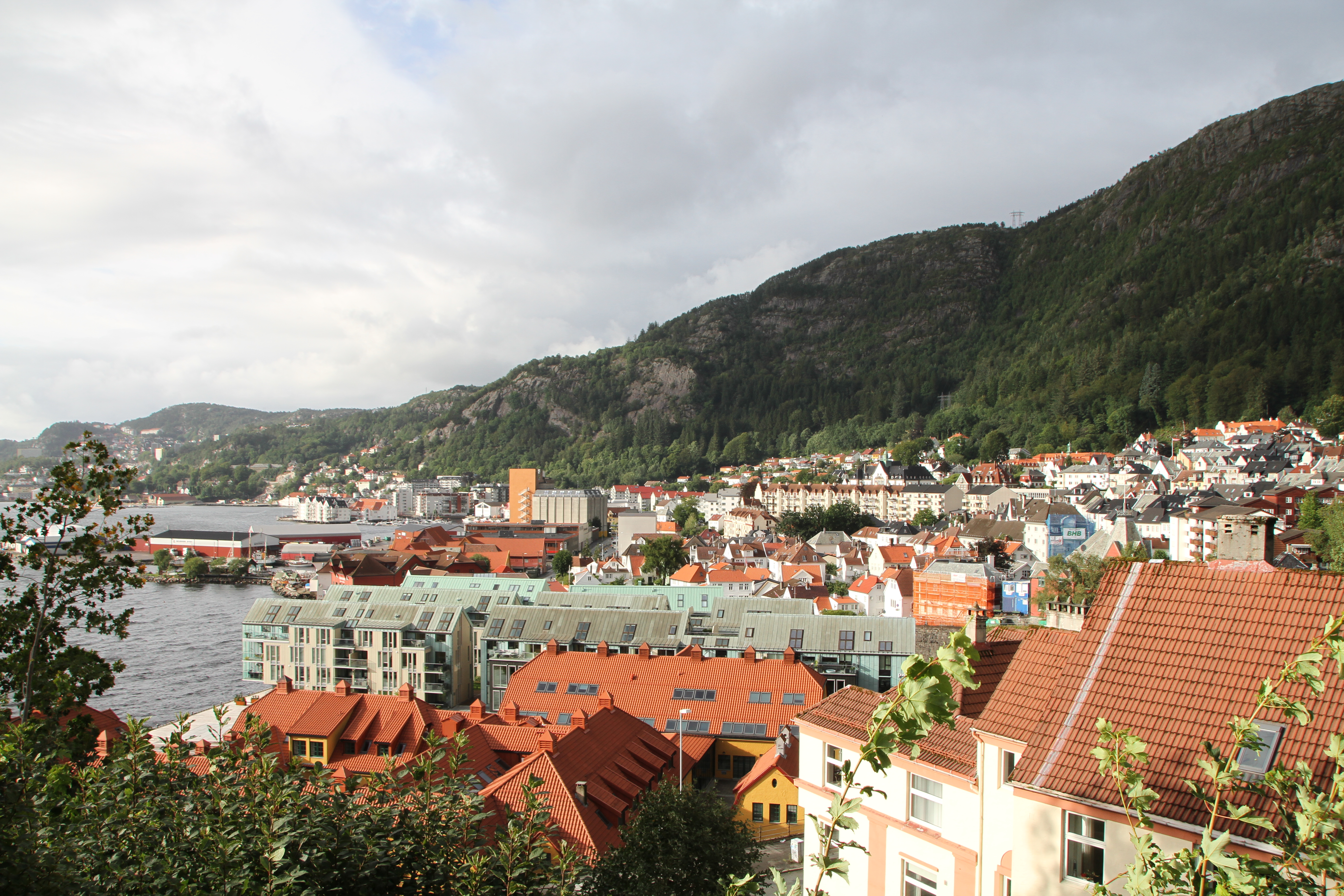 Partial overview of Sandviken, a borough in Bergen, Norway